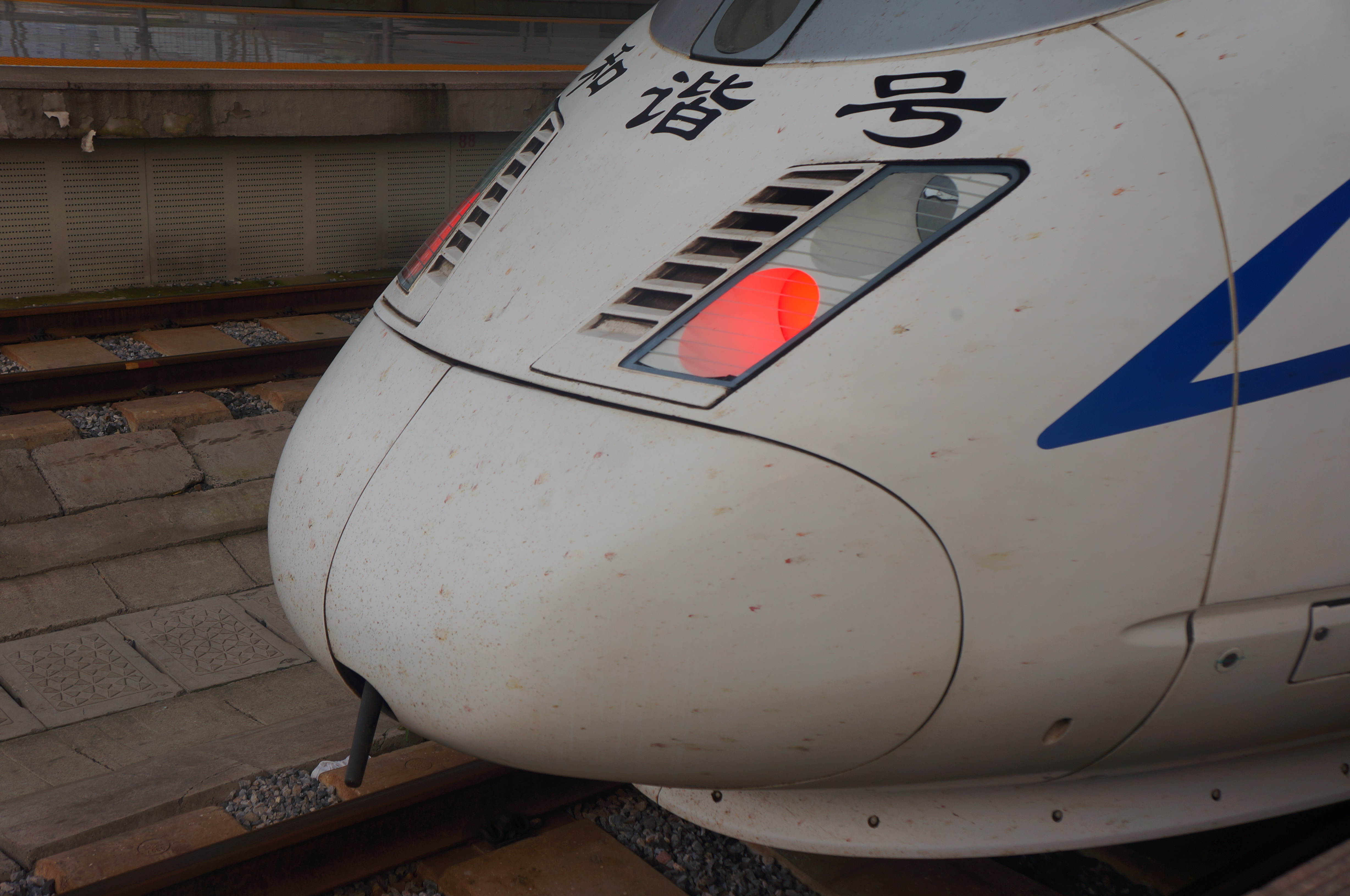 201606 Headlamp and conductor wire of CRH3C